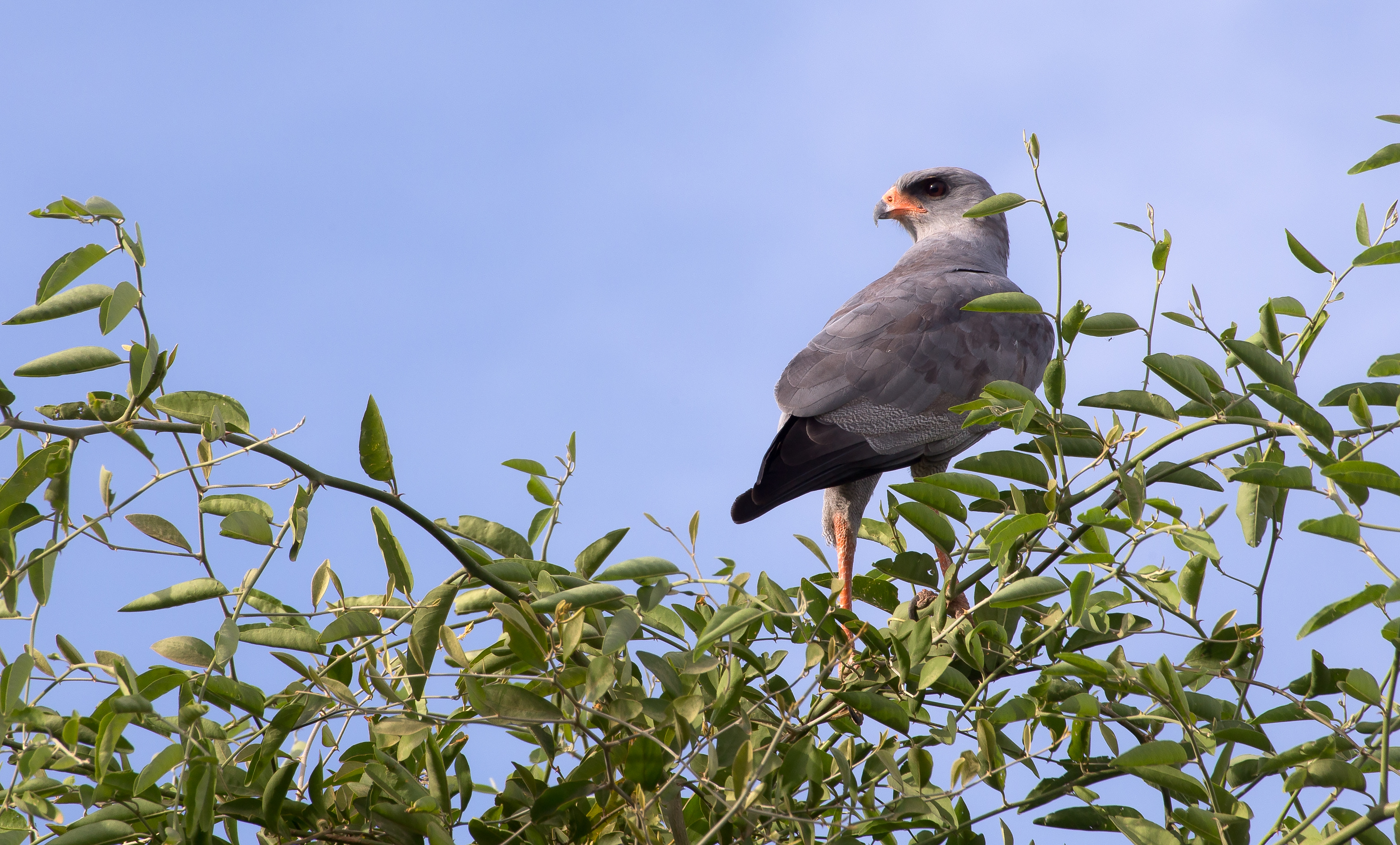 Dark chanting goshawk